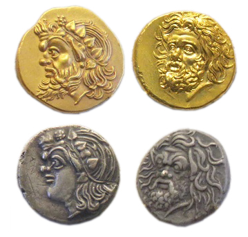 Representations of Pan on 4th century BC gold and silver Pantikapaion coins[1] (Bode and Altes Museums, Berlin). ↑ Sear, David R. (1978). Greek Coins and Their Values . Volume I: Europe (pp. 168-169). Seaby Ltd., London. ISBN 0 900652 46 2